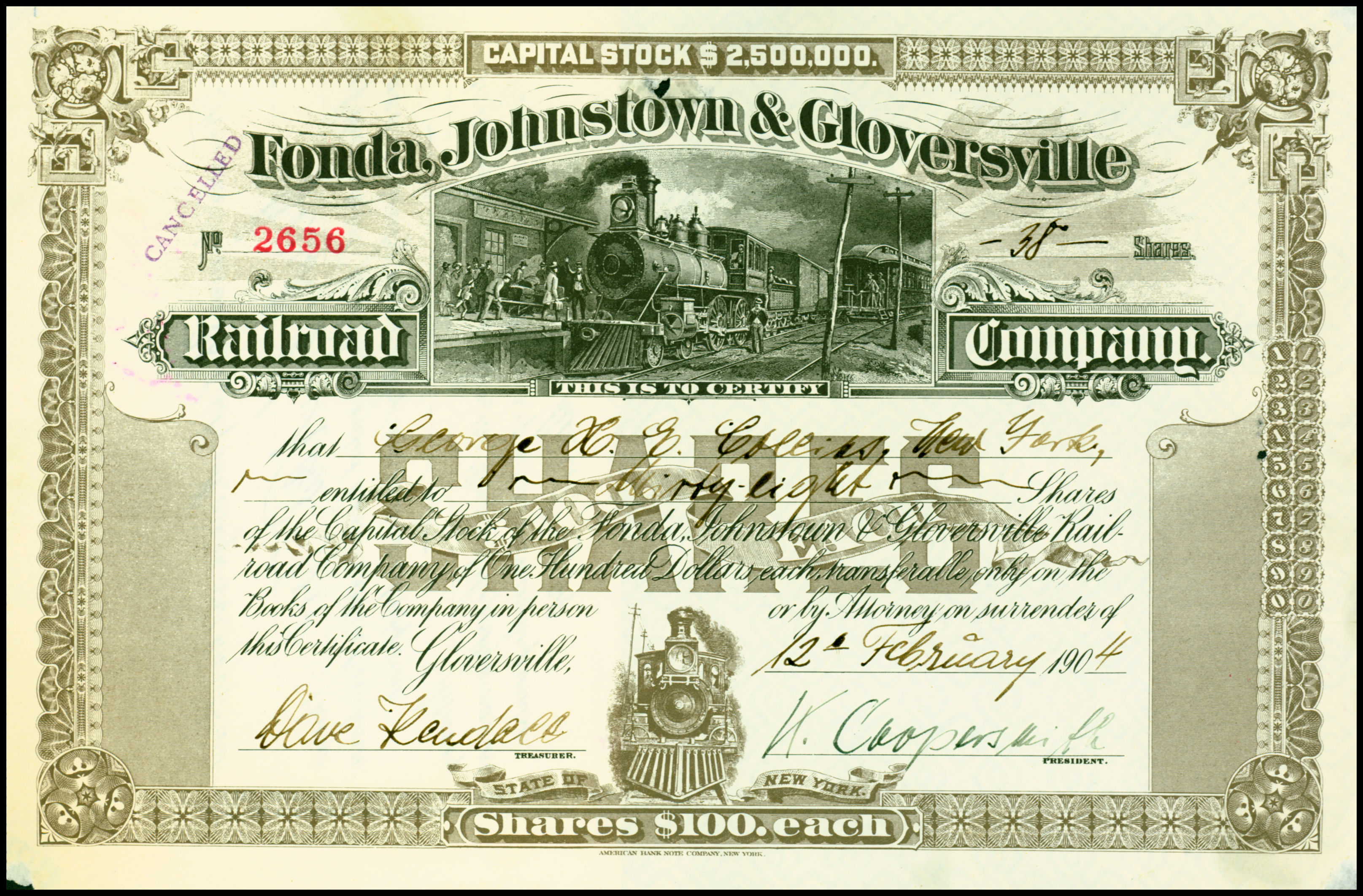 Share of the Fonda, Johnstown & Gloversville Railroad, issed 12. February 1904